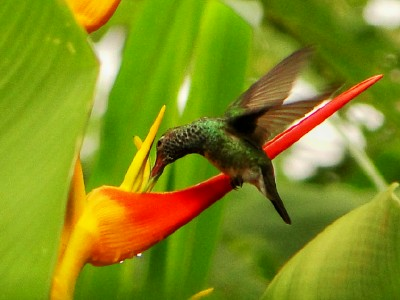 Amazilia fimbriata (Glittering-throated Emerald), Henri Pittier National Park, Venezuela.